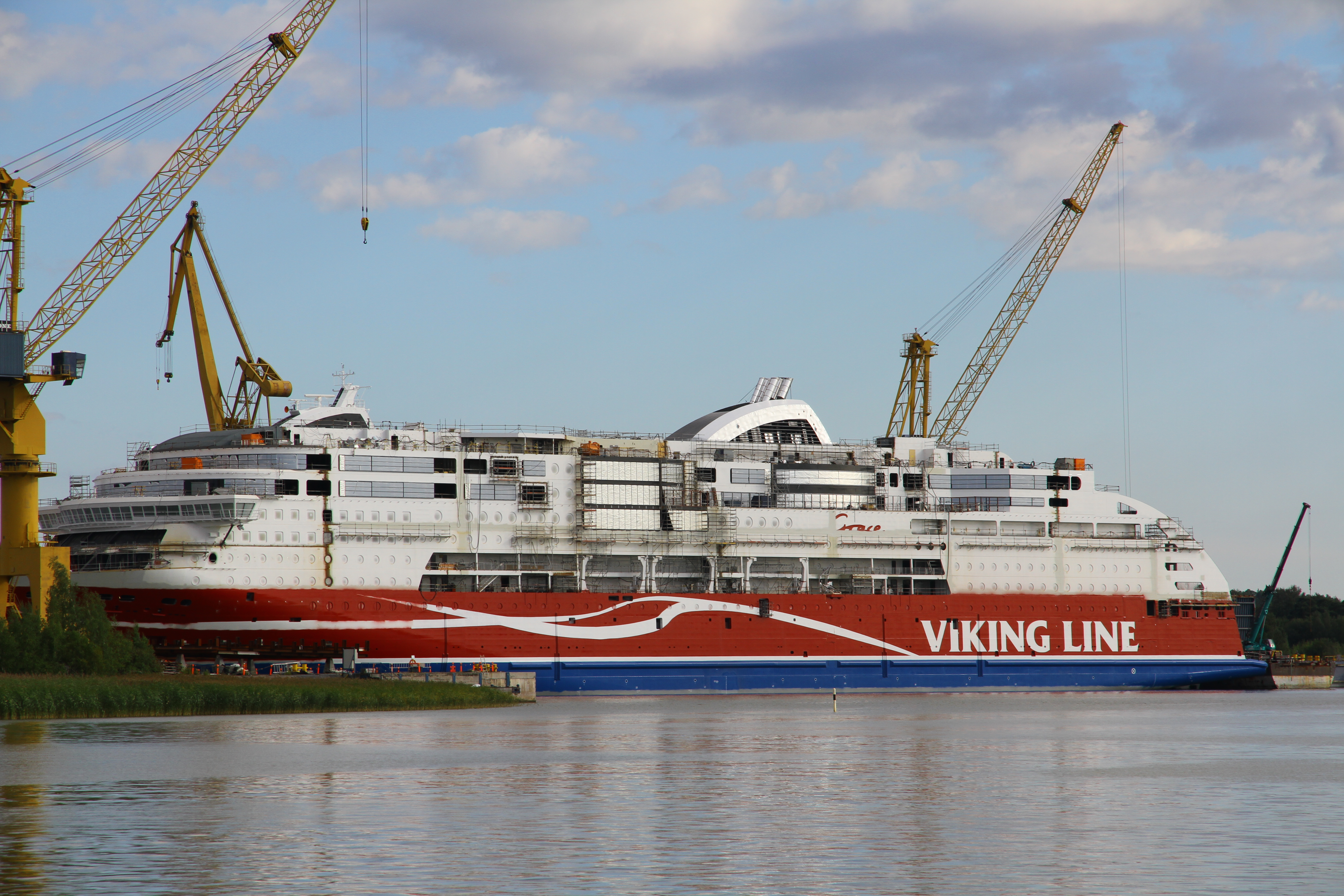 MS Viking Grace under construction at STX Europe, Turku, Finland.